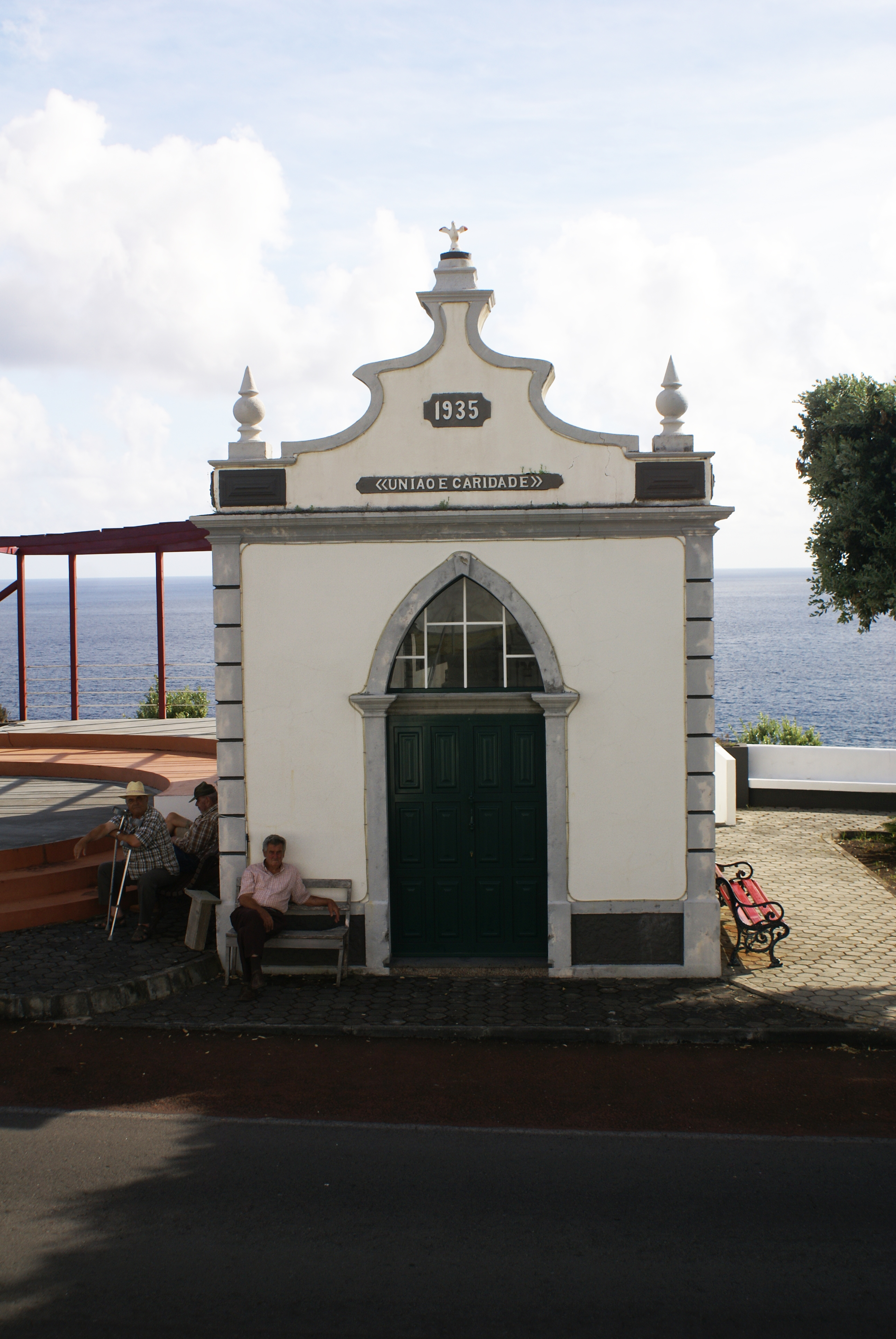 Império do Espírito Santo da Terra do Pão, São Caetano, concelho da Madalena do Pico, ilha do Pico, Açores, Portugal